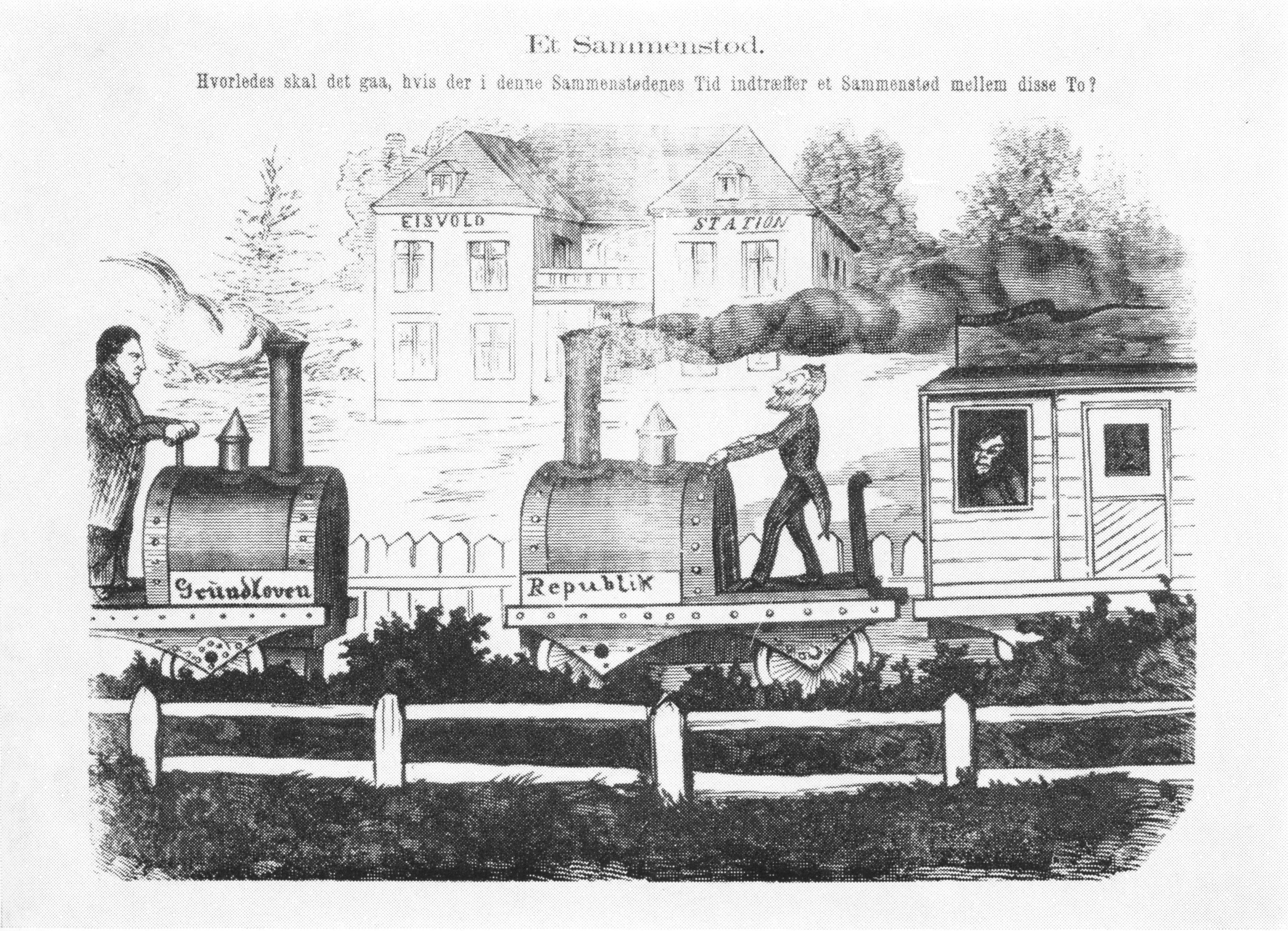 Collission between "Grundloven" (The Constitution) steered by prime minister Stang and "Republiken" (The Republic) with Sverdrup and the farmer leader Jaabaek. Caricature in Vikingen from 1873.